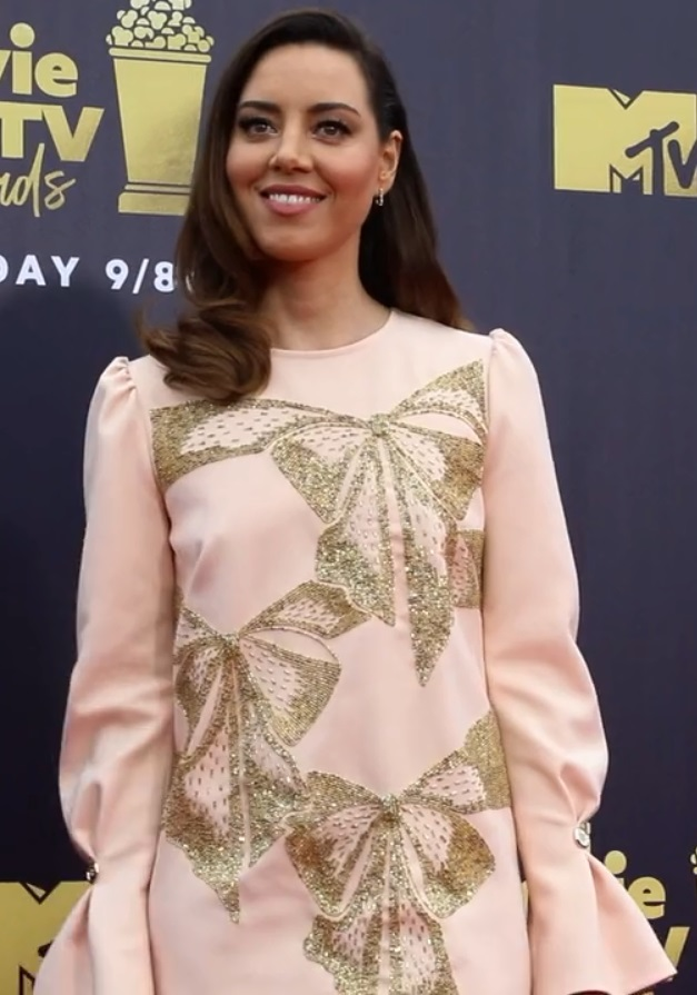 Aubrey Plaza at 2018 MTV Movie & TV Awards